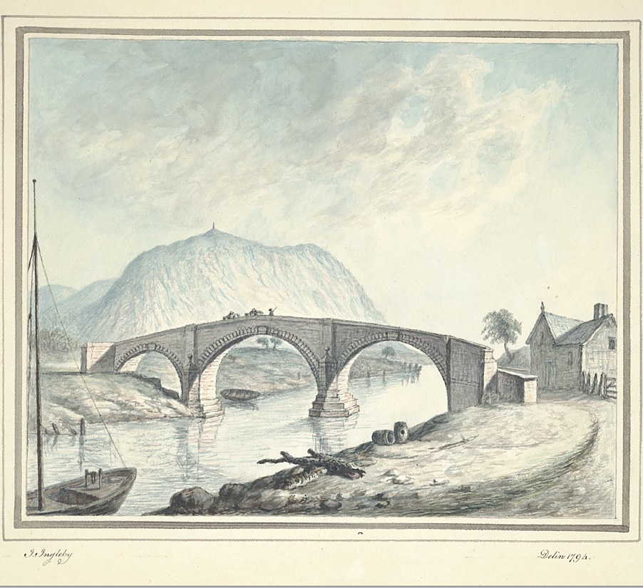 Llandrinio Bridge, Montgomeryshire John Ingleby 1794